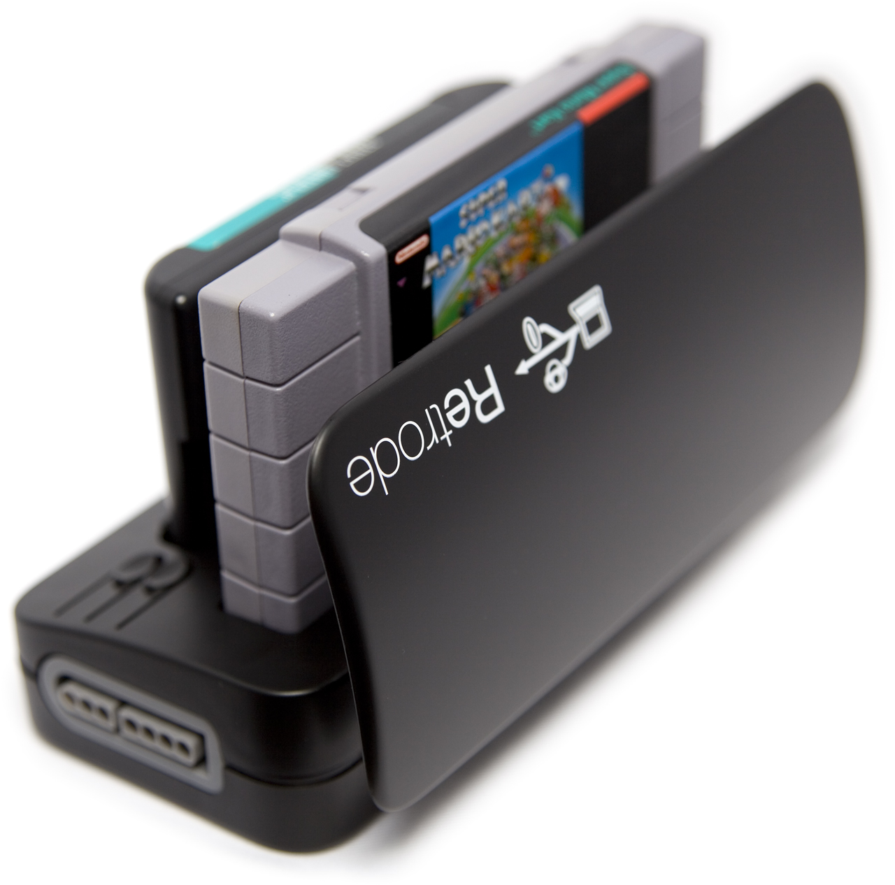 Semi-frontal product view with lid half open